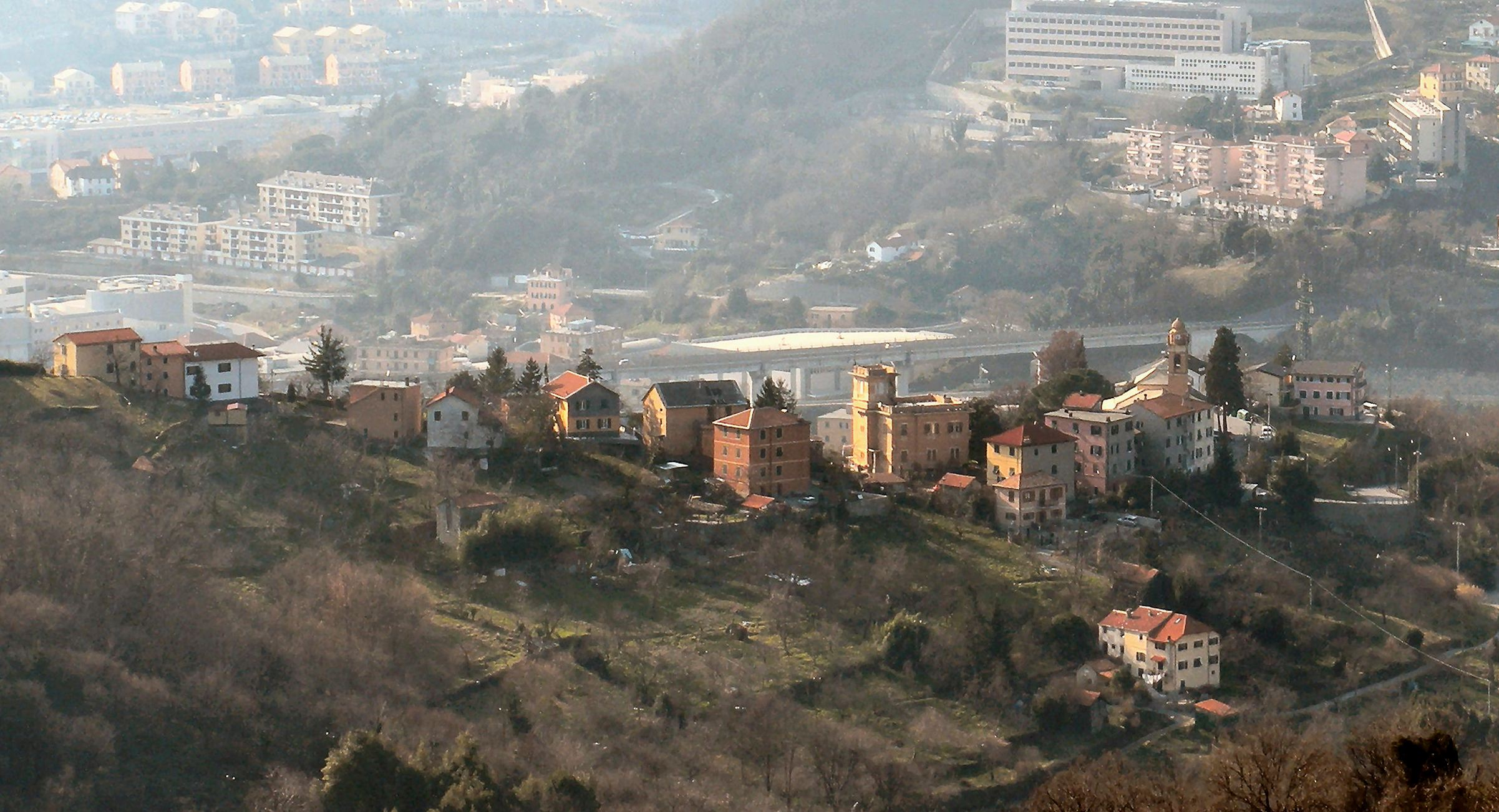 Genoa (Italy), quarter of Bolzaneto, view of Cremeno